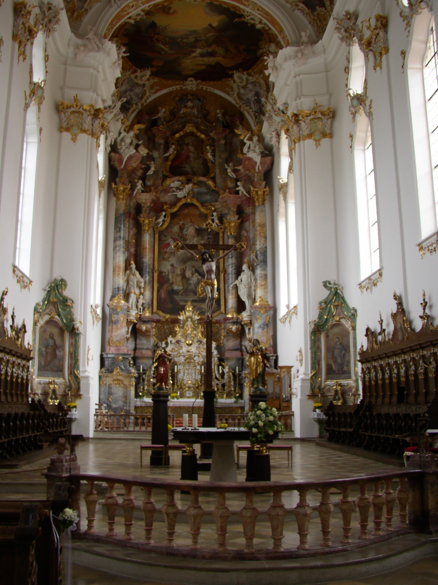 Quire of the church of Roggenburg Abbey, Bavaria, Germany